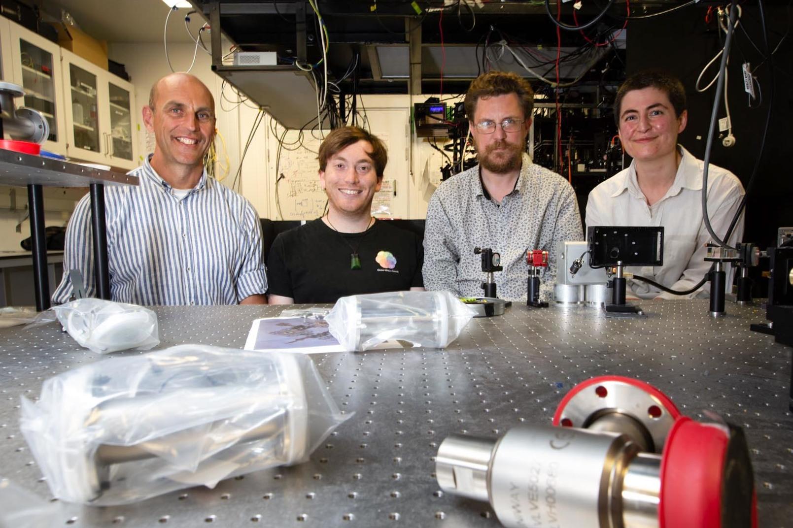 Dodd-Walls Centre Principal Investigator Maarten Hoogerland with students in his lab at the University of Auckland